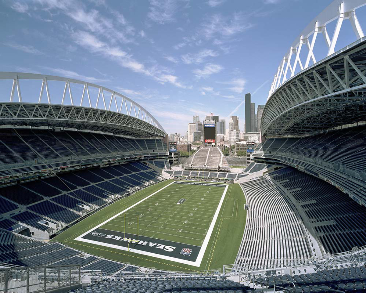 The interior of Qwest Field from the south